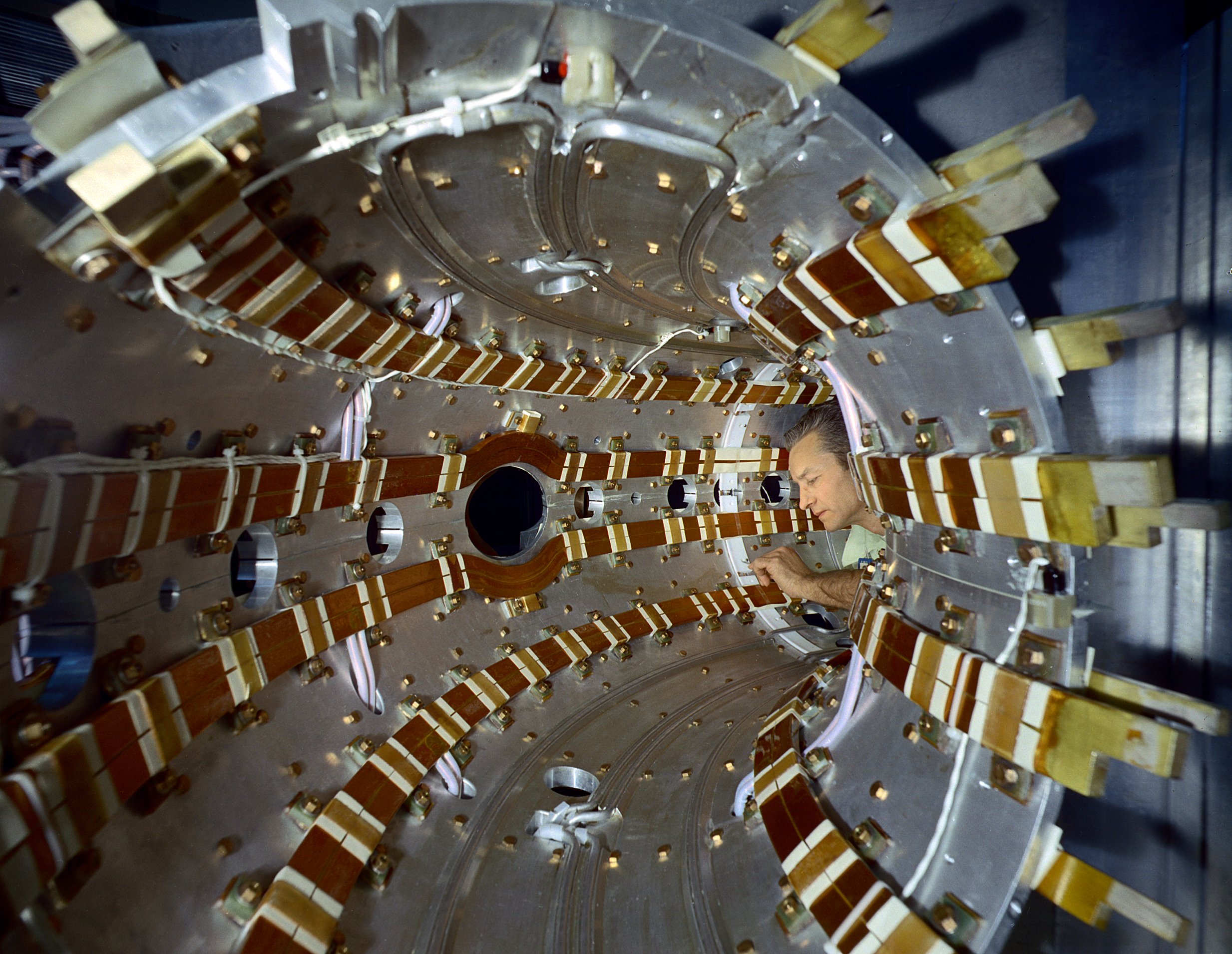 The ORMAK (Oak Ridge tokaMAK) an experimental fusion tokamak. It was ORNL's first tokamak in the laboratory’s pursuit of fusion energy. It began operations in 1971. ORMAK eventually achieved a plasma temperature of 20 million degrees, approaching record temperatures that are needed for self-sustaining fusion reactions.